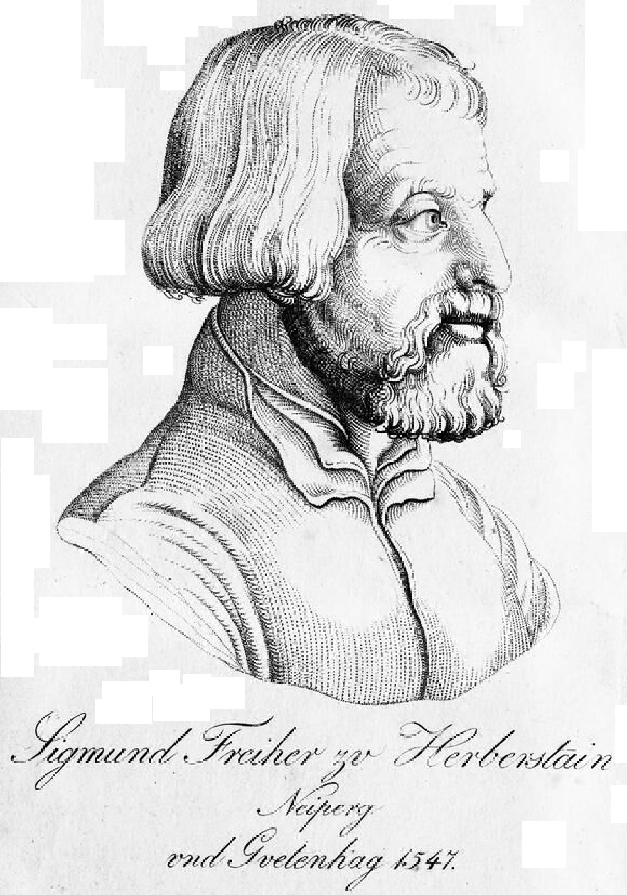 Neyer: Herberstein, Siegmund von [Hofbeamter, Diplomat 1486-1566]